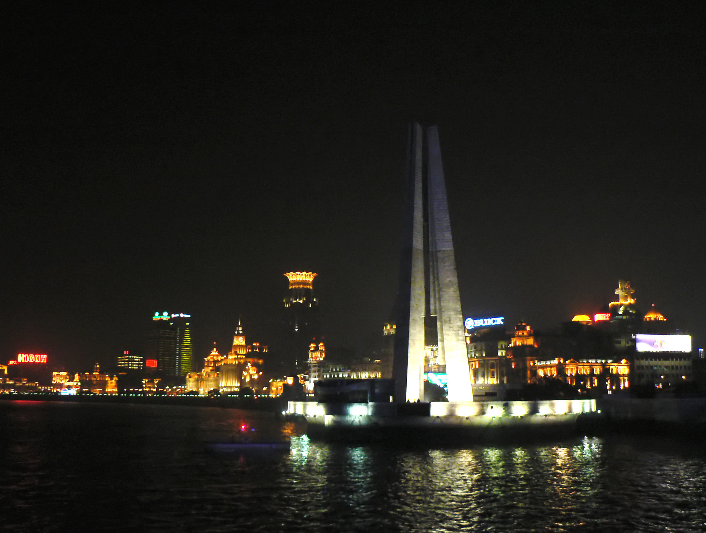 The Bund seen from the Huangpu River.